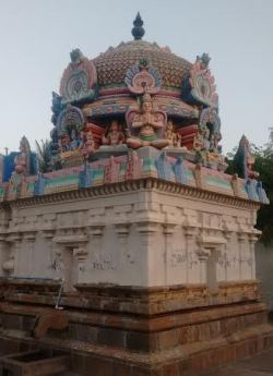 Pattisvaramkothandaramartemple பட்டீஸ்வரம் கோதண்டராமர்கோயில்